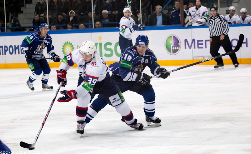 Amur Khabarovsk forward Dmitri Shitikov (in blue) and HC Sibir Novosibirsk forward Stepan Sannikov during KHL game on December 4, 2011.